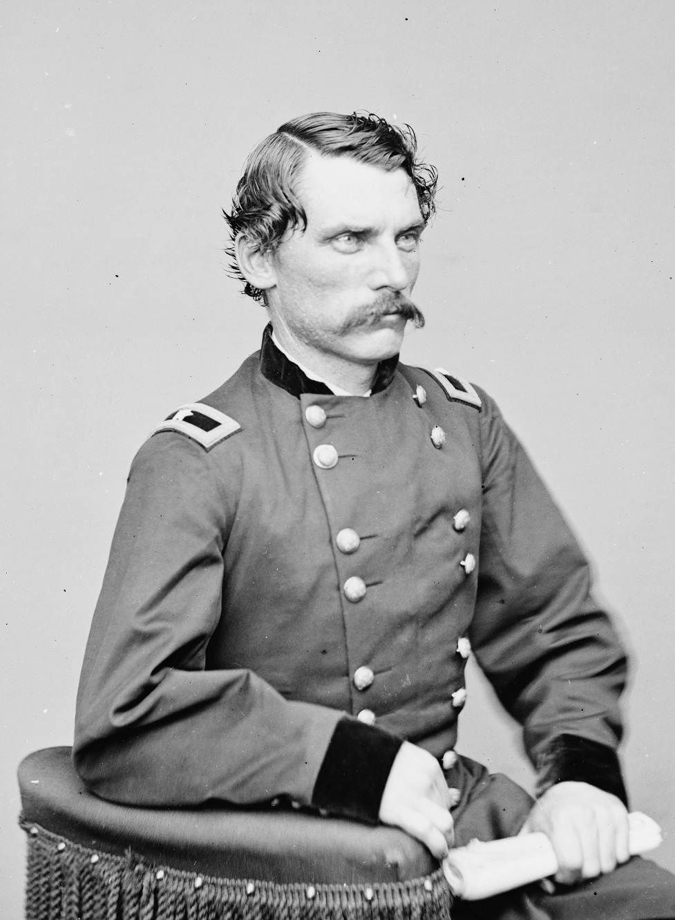 org.: Wm. H. Penrose as Col. 15th New Jersey Infantry (remark: the uniform has brigadier generals insignia)